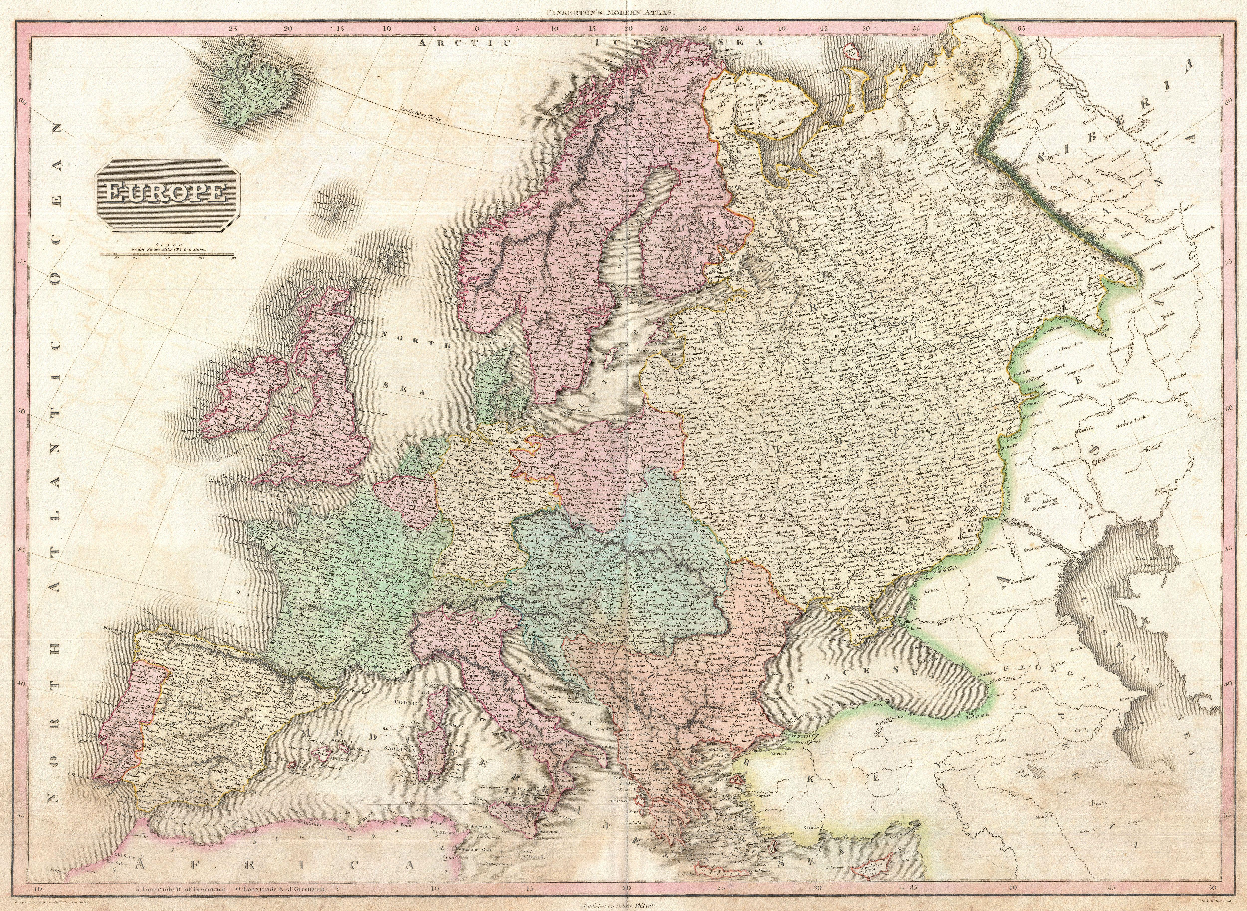 Pinkerton's extraordinary 1818 map of Europe. Covers Europe at the beginning of the 19th century. Offers considerable detail with political divisions and color coding at the regional level. Identifies cities, towns, castles, swamps, mountains and river ways. Title plate in the upper left quadrant. A mile scale in British Statute Miles also appears in the upper left quadrant. Drawn by L. Herbert and engraved by Samuel Neele under the direction of John Pinkerton. This map comes from the scarce American edition of Pinkerton’s Modern Atlas, published by Thomas Dobson & Co. of Philadelphia in 1818.